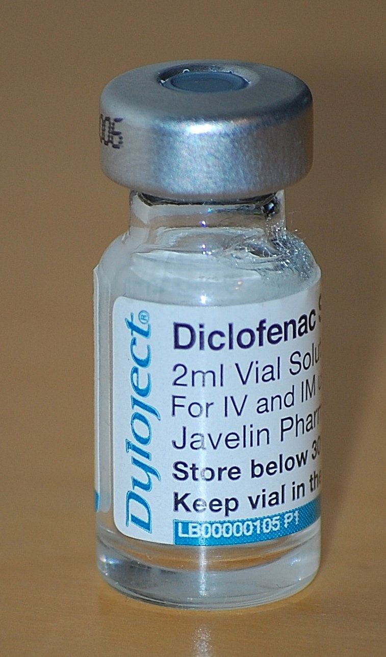 Dyloject